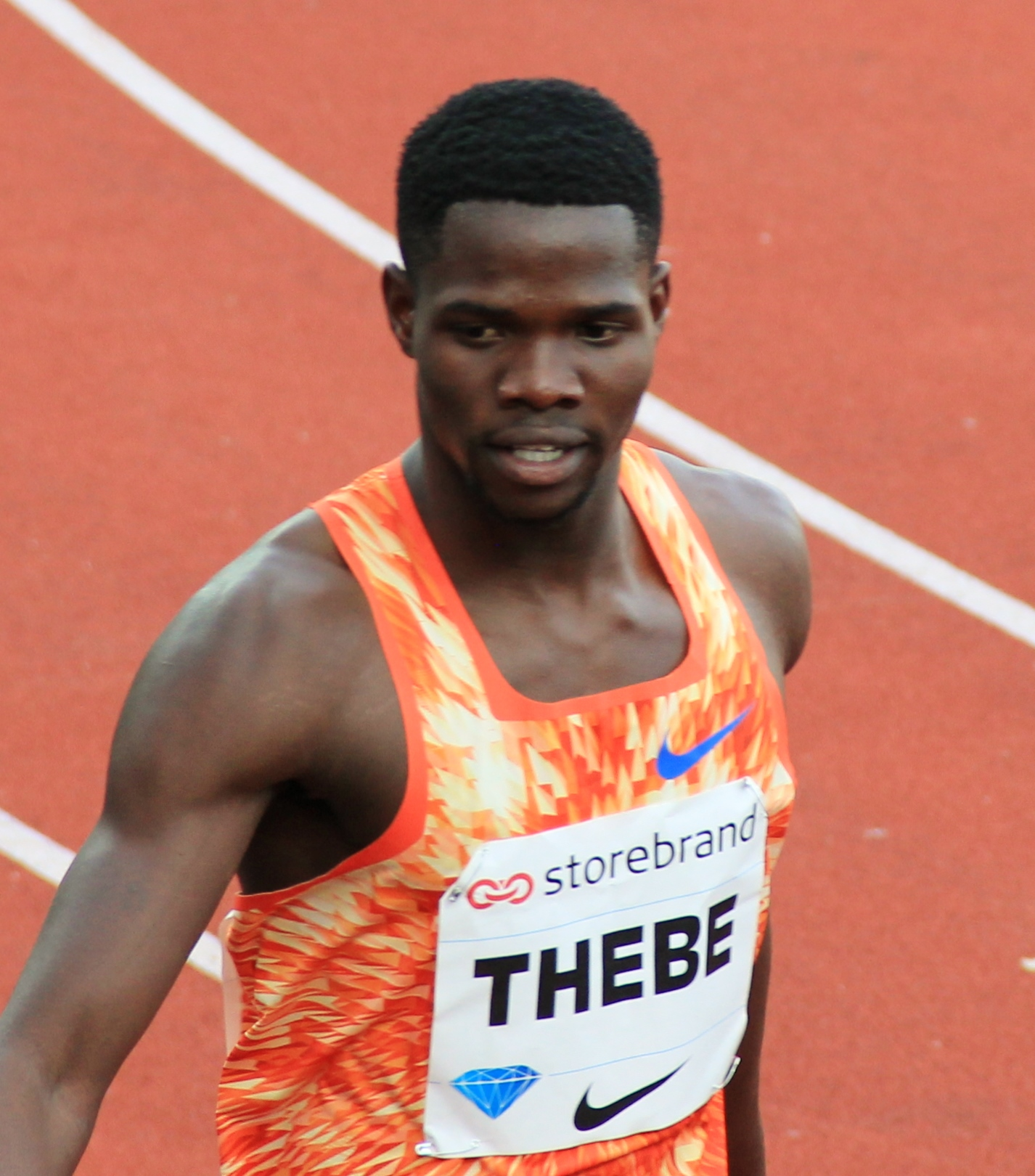 Thebe at the 2017 Bislett Games